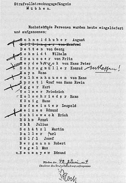 List of leading members of the SA arrested on June 30 1934 and taken to Stadelheim prison in Munich.